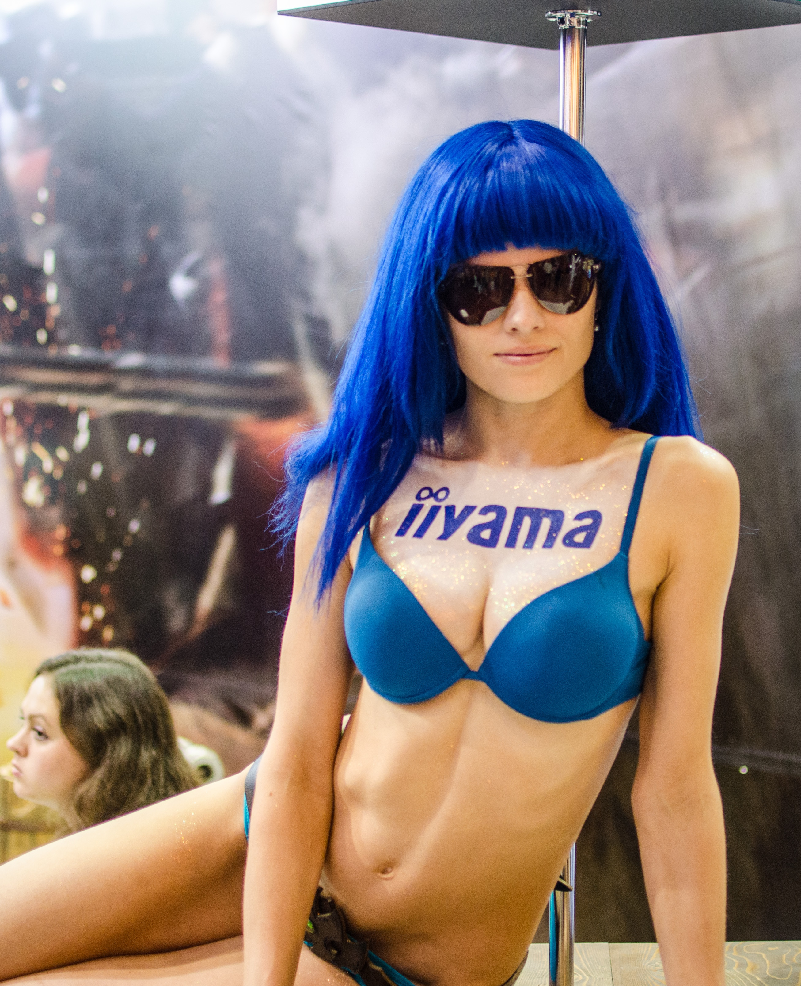 Taken on October 4, 2012 Nikon D5100